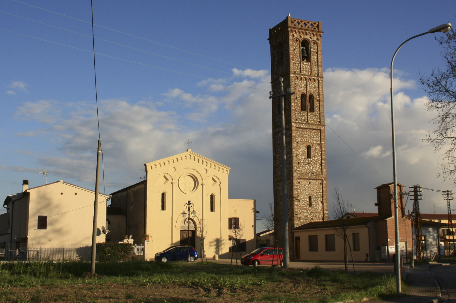 Church Santi Pietro e Paolo, Latignano, hamlet of Cascina, Province of Pisa, Tuscany, Italy